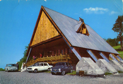 Lorica - old mountain shelter on Monte Botte Donato, later burnt down - postcard from the 1960ies